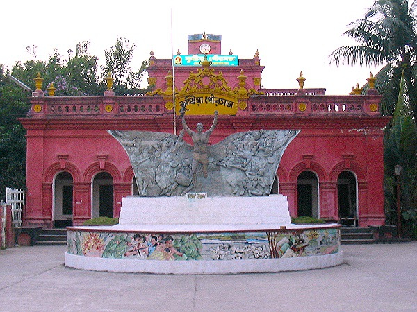 Kushtia District Municipality Headquarters, Kushtia, Bangladesh.